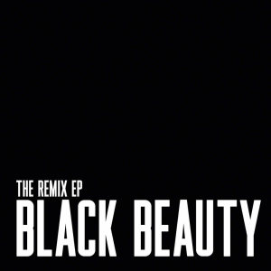 The single cover for Lana Del Rey's Black Beauty